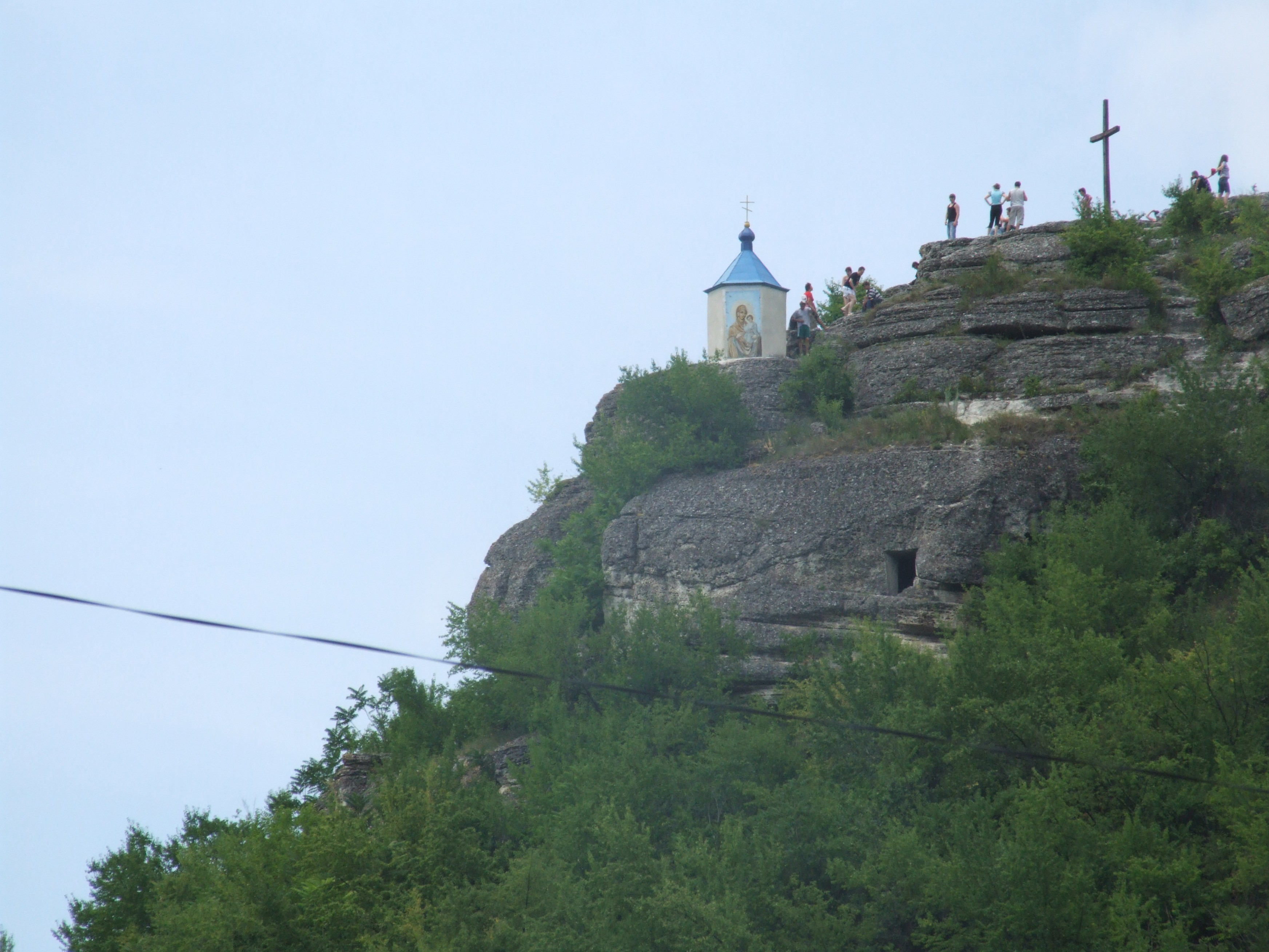 the chapel on top of the closest hill to Saharna monastery